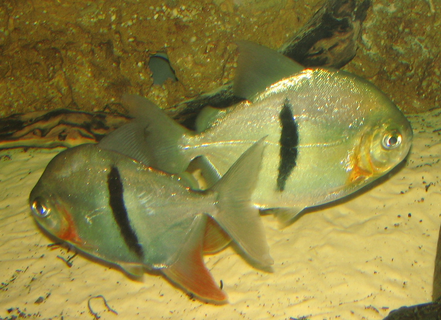 Black-barred Myleus ( Myleus schomburgkii ) at Newport Aquarium, newport ky